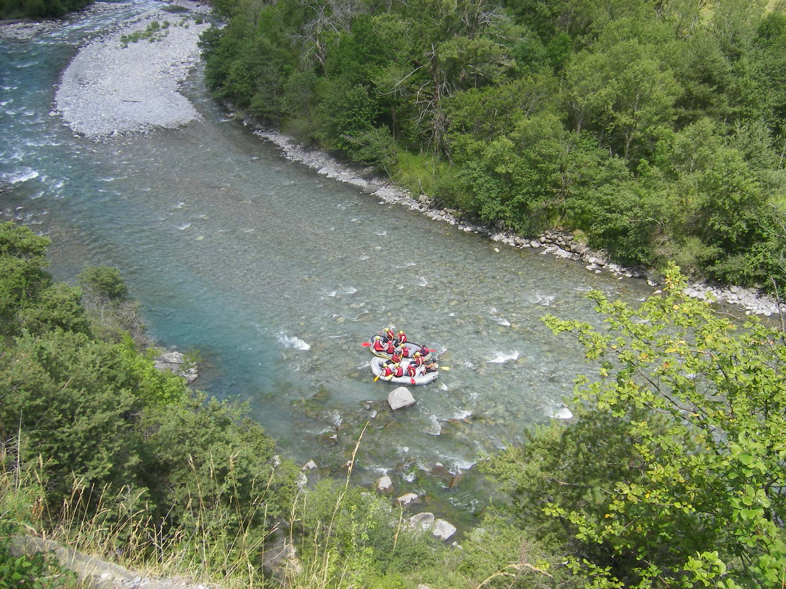 The Ubaye Valley between Les Thuiles and Le Lauzet-Ubaye